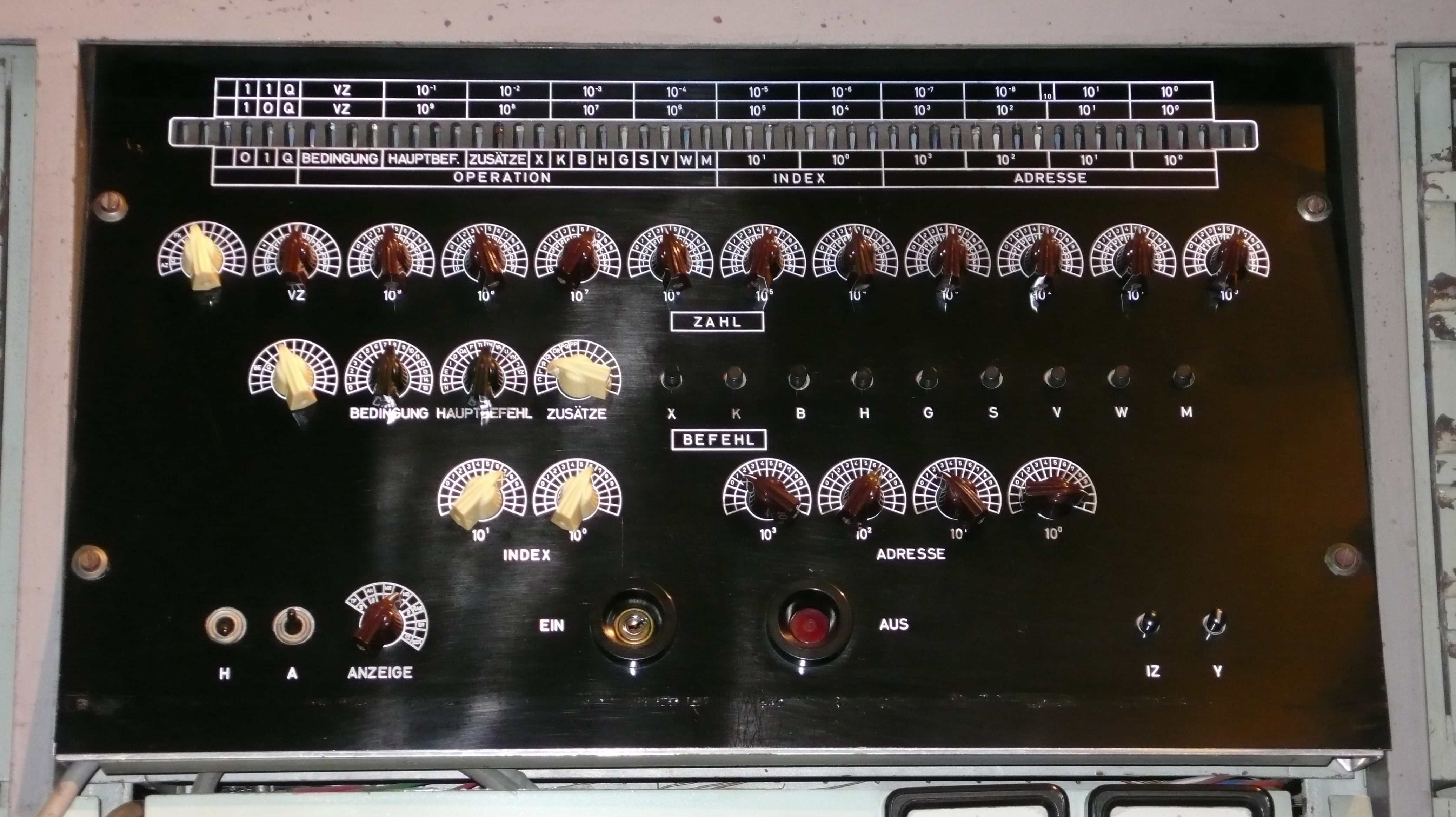 Computer Mailüfterl (1955 TU Wien)